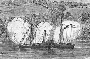 "The Gun-boats 'Galena' and 'Mahaska' shelling the Rebels at Harrison's Landing, July 1, 1862"